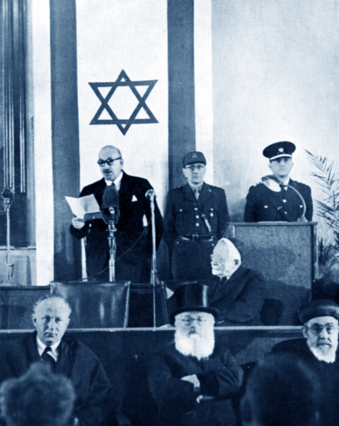 February 17, 1949 President Chaim Weizmann, was sworn in building national institutions. Top row left to right: commissioner Yehezkel Sahar, the president's military aide, president Chaim Weizmann. Center: Rabbi Mordechai Nurok. Bottom row left to right: Rabbi Uziel, Rabbi Yitzhak Herzog.